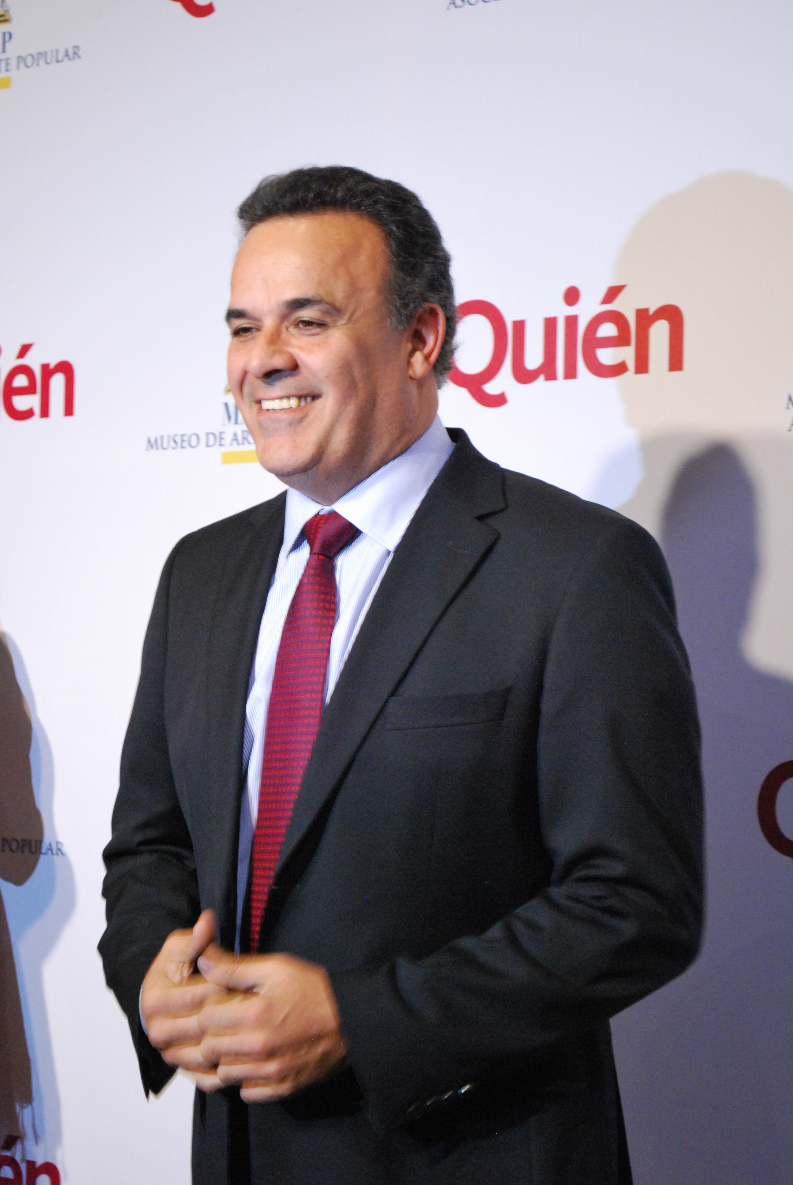 Fernando de la Mora Mexican operatic tenor. Guest at the 6th anniversary celebration of the Museo de Arte Popular in Mexico City